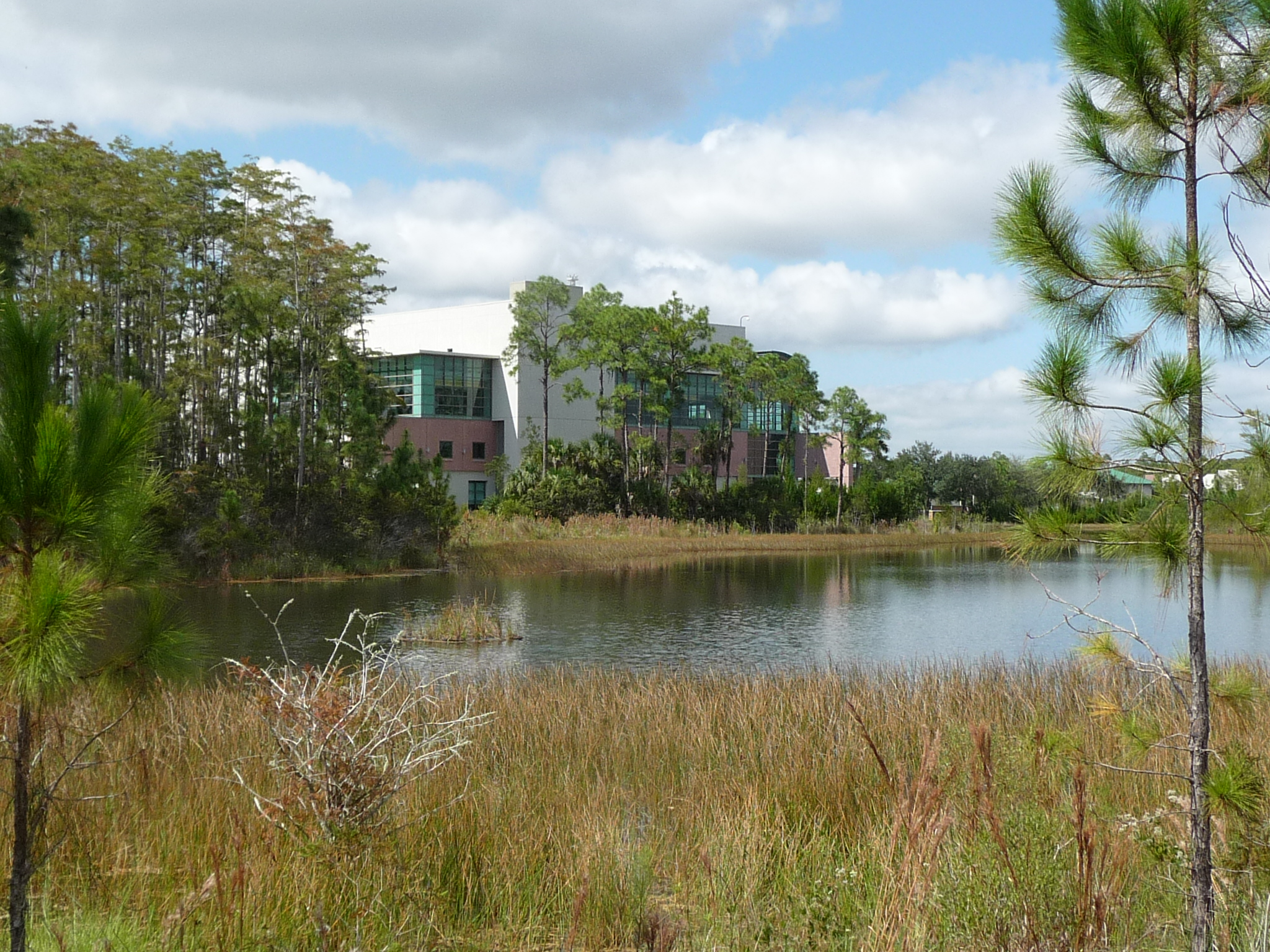 I took this picture from the the ring road in Fall 2013.